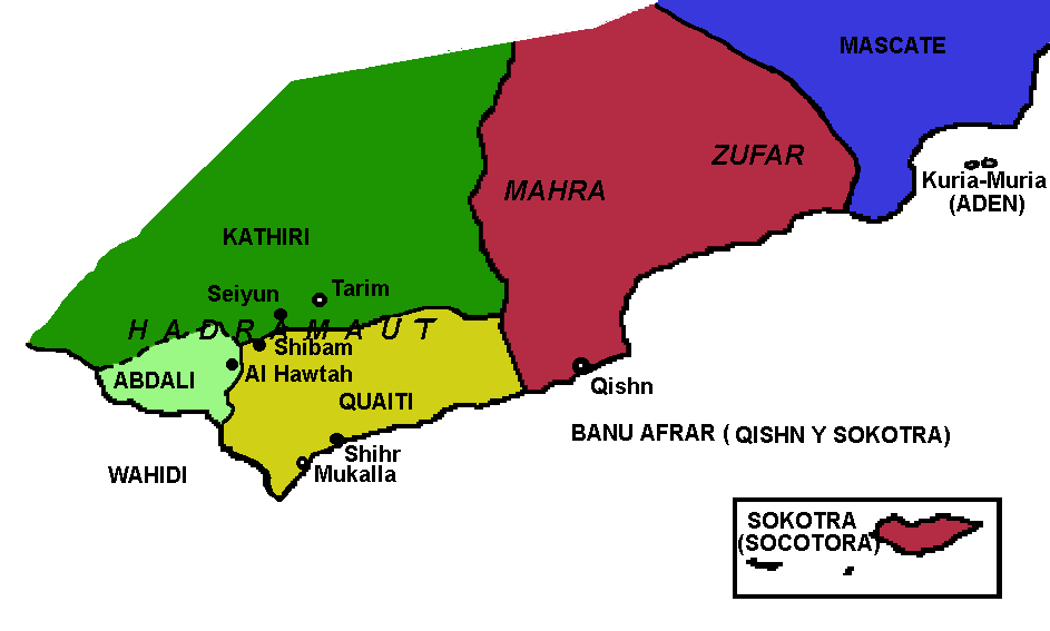 This self-created map by uploader shows drastically different borders than those seen on the other maps of the Eastern Protectorate.